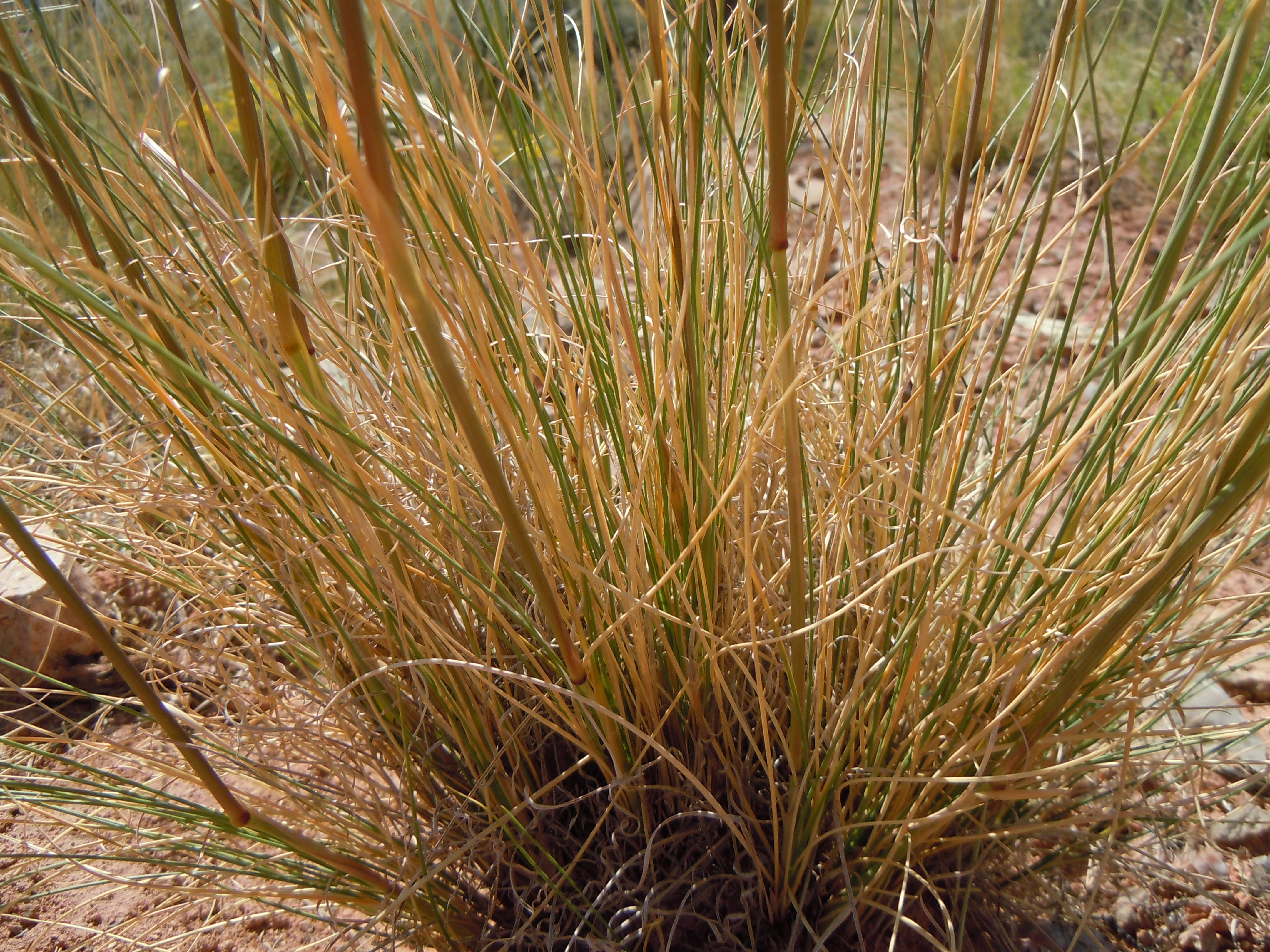 Very similar to Stipa comata (needle-and-thread) except mainly for the plumose awns.